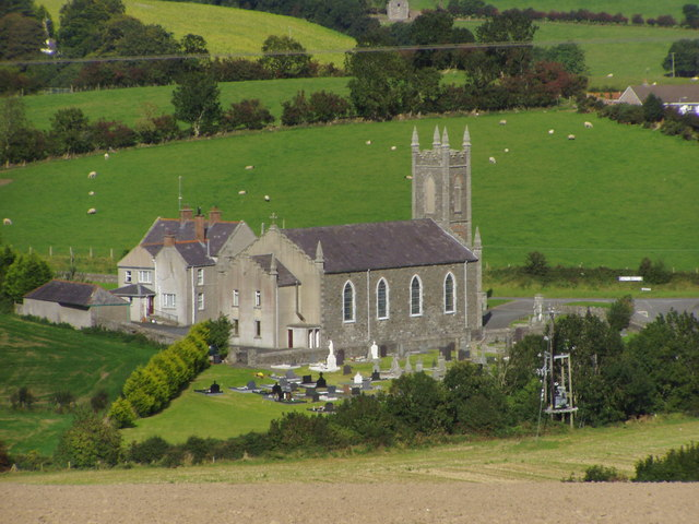 St. Colman's Church St. Colman's Roman Catholic Church, Annaclone, Banbridge